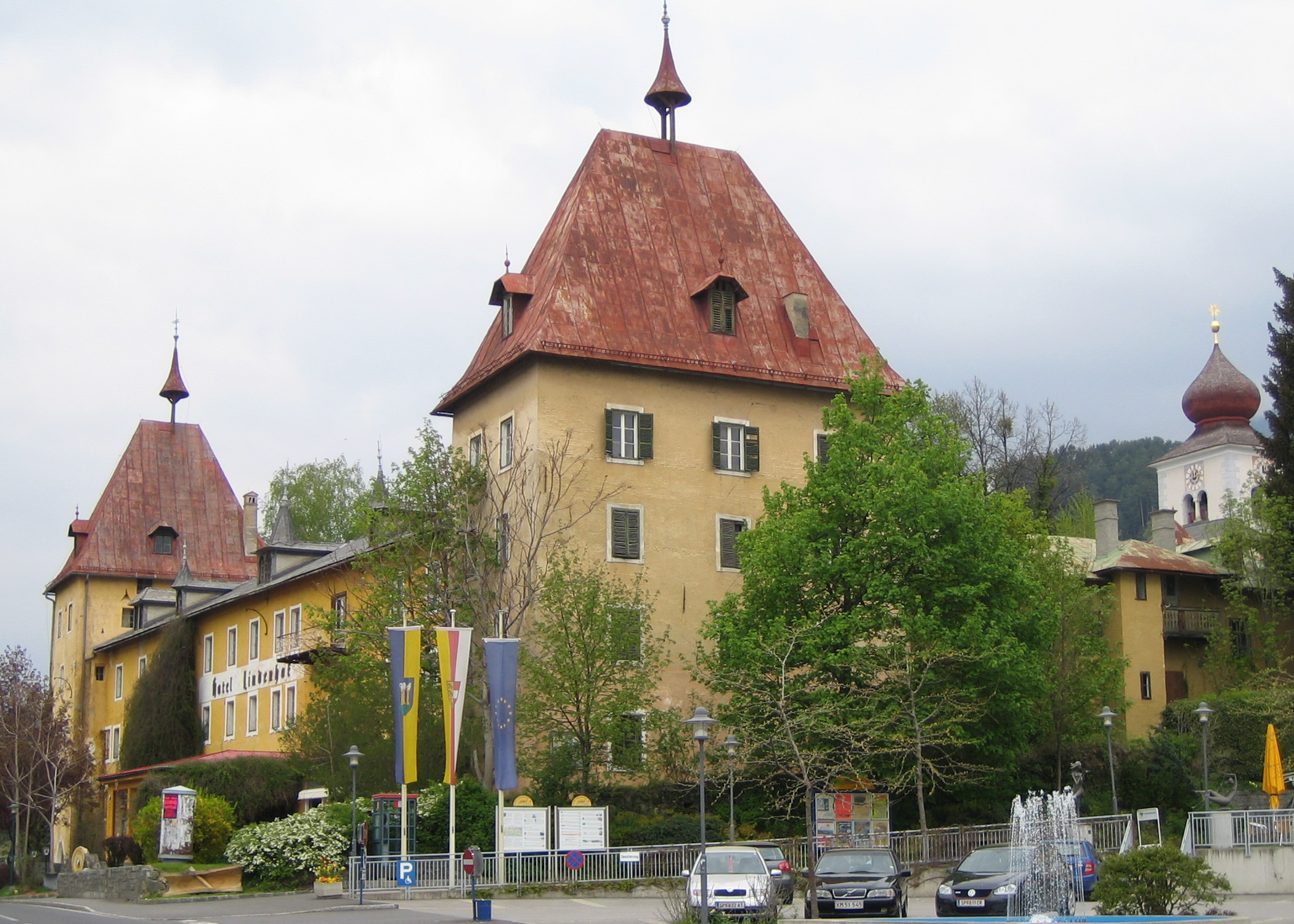 Millstatt (Austria), Hotel "Lindenhof". Today the southern wing of the Millstatt monastery (constructed at the end of the 15th century) is used as a hotel. The name "Lindenhof" derives from the one millennium old lime tree (German: Linde) at the castle's courtyard.